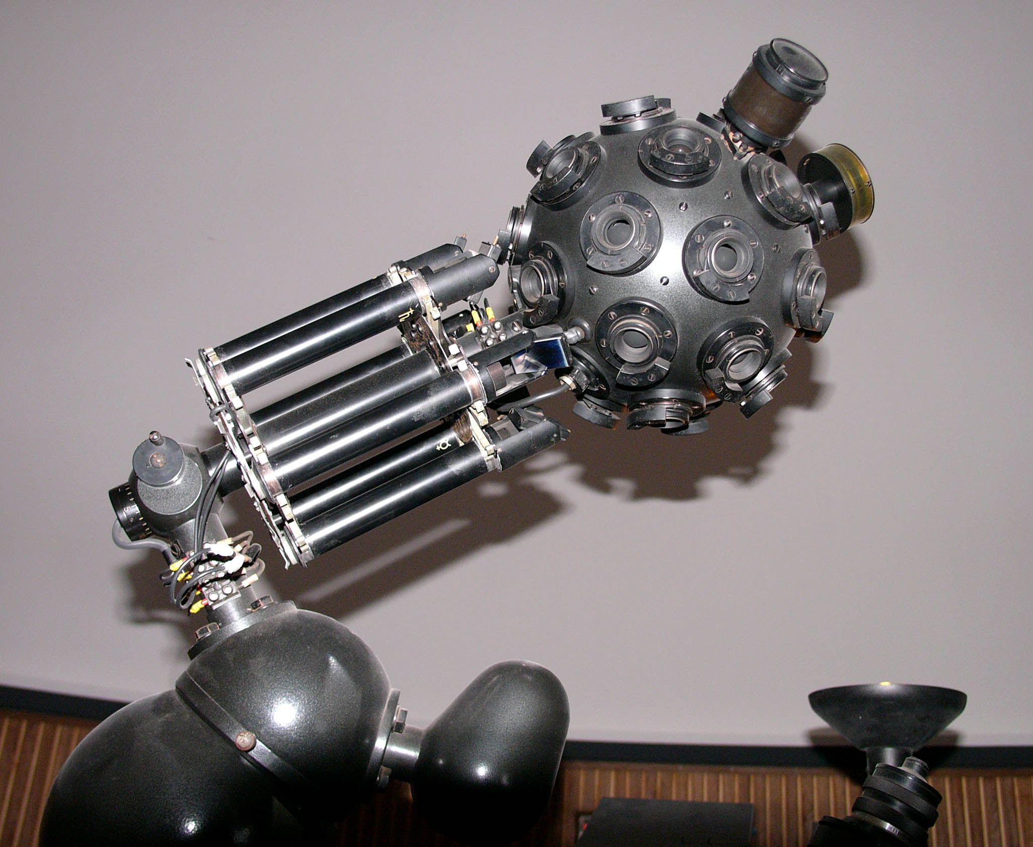 Zeiss-Kleinplanetarium Nr. 1 (ZKP1), Planetarium Projector, 39 lenses, ab. 5000 stars, 12 V 50 Watt bulb, manufactured in the late 1950th, operational since 1961-04 at Seefahrtsschule Bremerhaven. It is the smallest ever built by Zeiss, Jena. Since the 1990th the building is owned by Alfred Wegener Institute for Polar and Marine Research, Bussestr. 24, 27568 Bremerhaven, Germany.